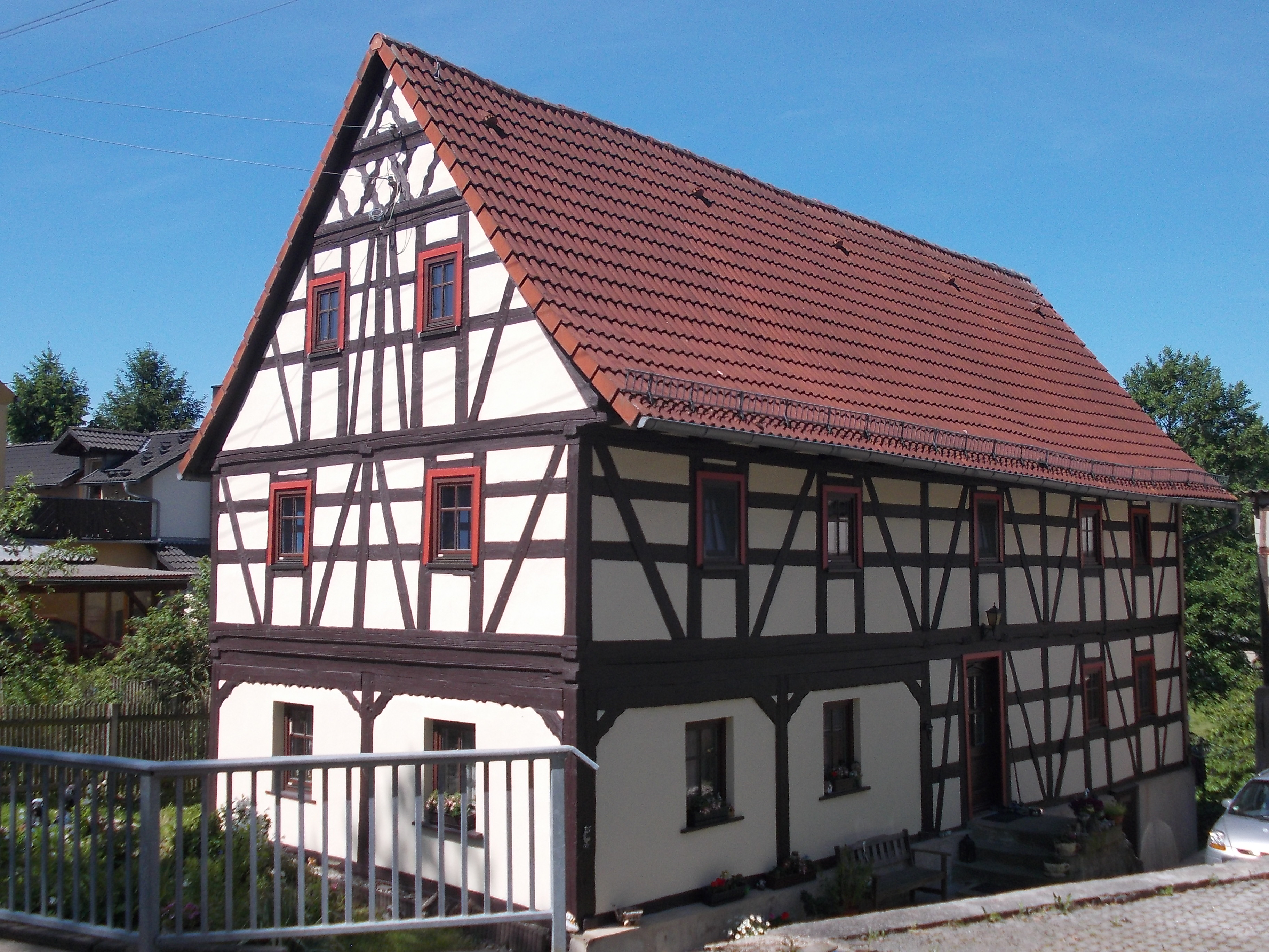 Half-timbered house in Mosen (Wünschendorf, Greiz district, Thuringia)